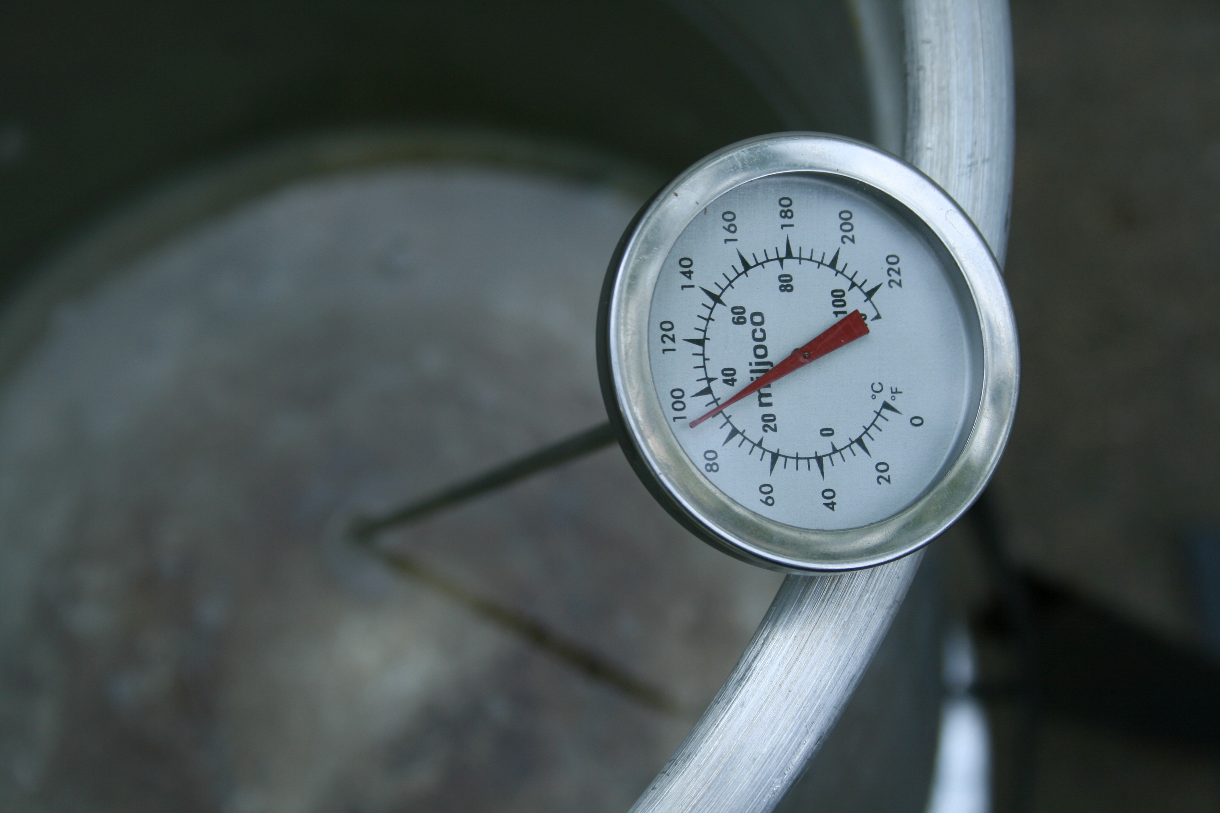 A thermometer in a bucket of heated water reading 92 degrees Celsius.